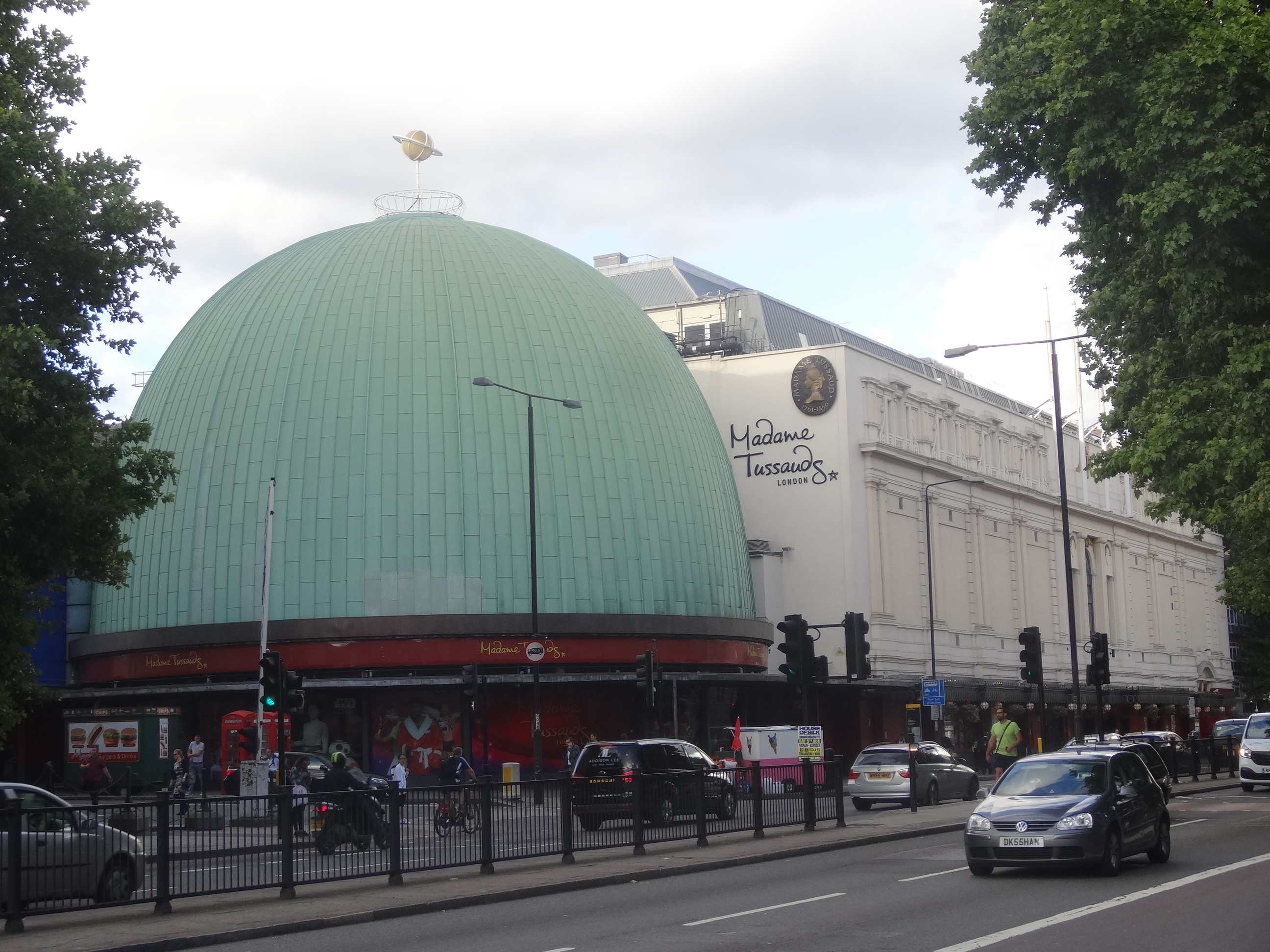 Madame Tussauds London